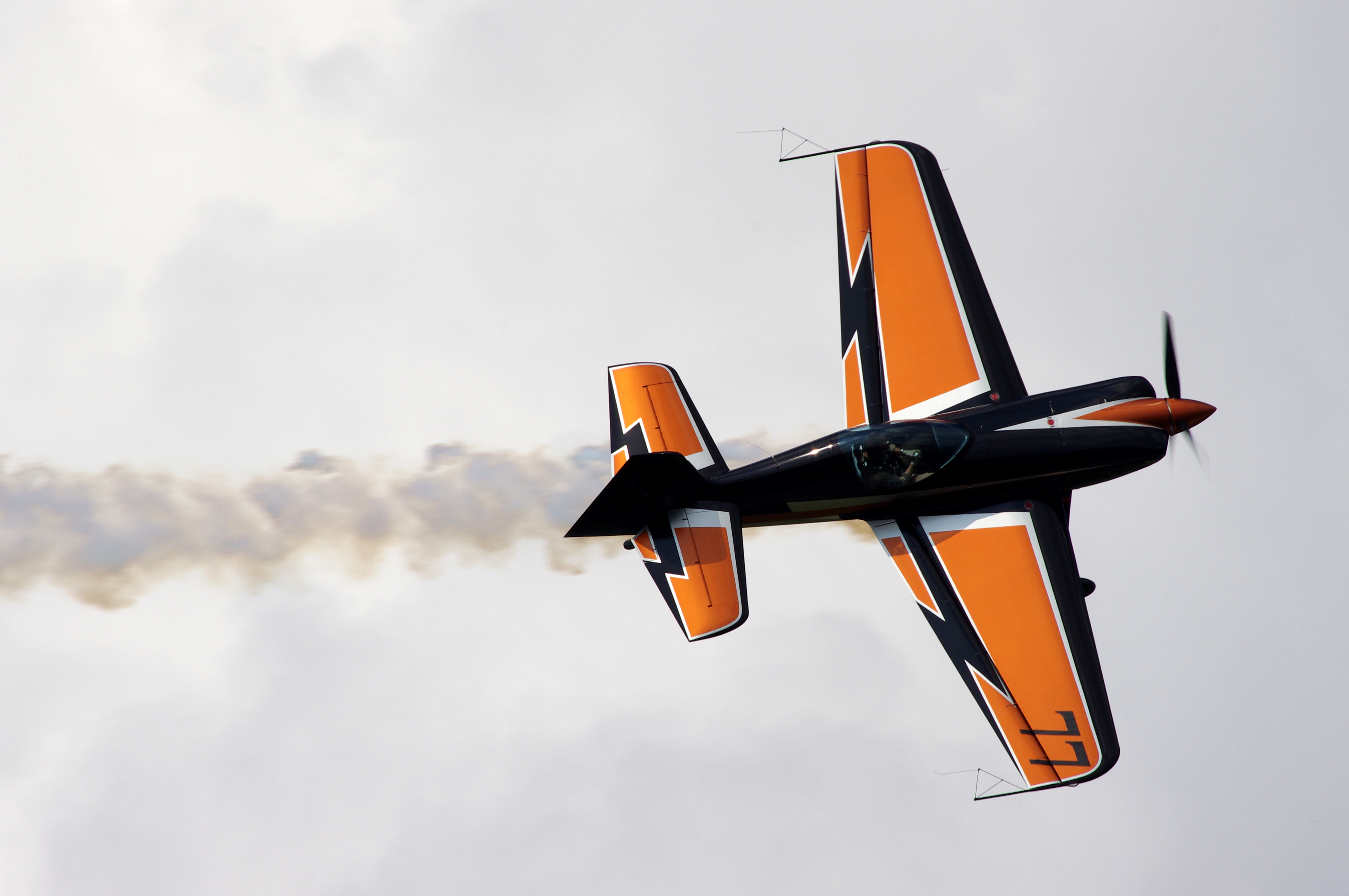 Artur Kielak performing on XtremeAir XA-41 at the air show in Kraków